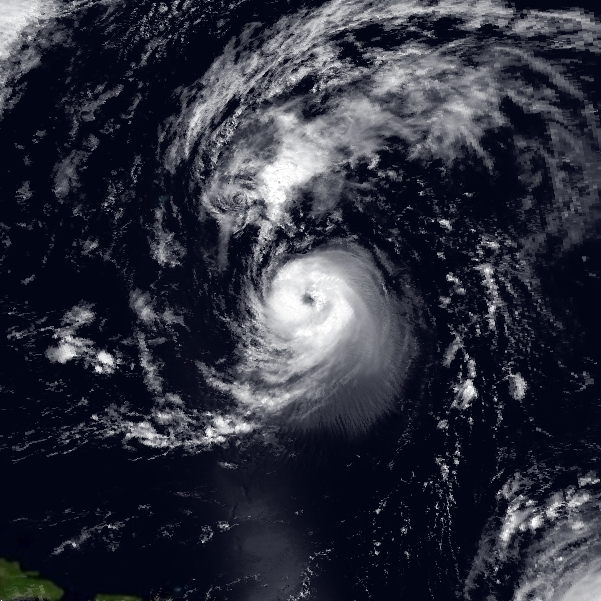 Image of Hurricane Iris of the 1995 Atlantic hurricane season on 2 September 1995